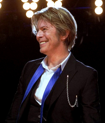 David Bowie performs at Tweeter Center outside Chicago in Tinley Park,IL, USA on August 8, 2002. Photo by Adam Bielawski This file has been extracted from another file: David-Bowie Chicago 2002-08-08 photoby Adam-Bielawski.jpg